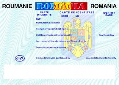 A blank model of the Romanian ID card issued since 2009.